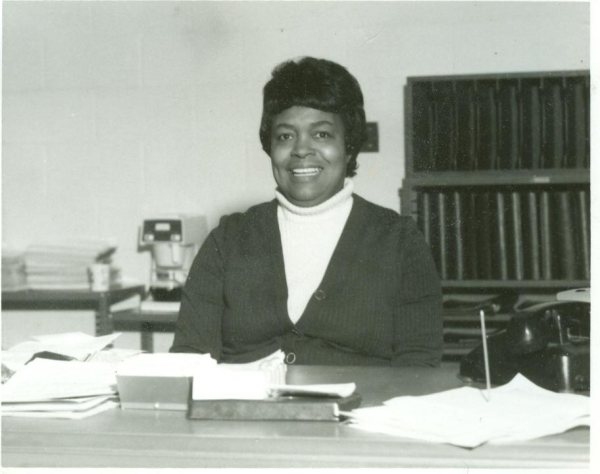 Picture of Bertha Calloway